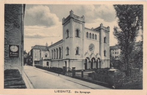 Synagogue of Liegnitz / Legnica built in 1847 . destroyed by the Nazis during th Kristalnacht in 1938